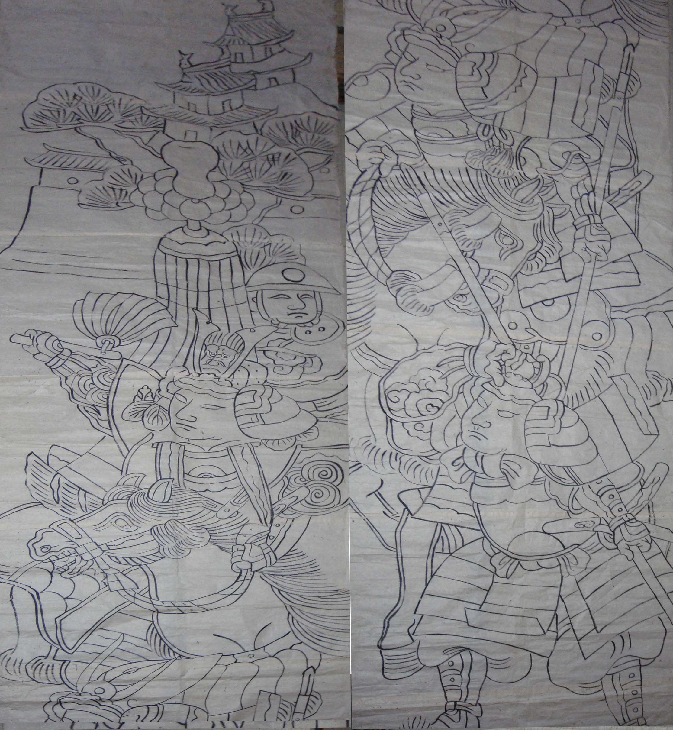 筒描き手染め武者絵のぼり 太閤 原寸の下絵 Japanese TSUTSUGAKI Worriors Nobori